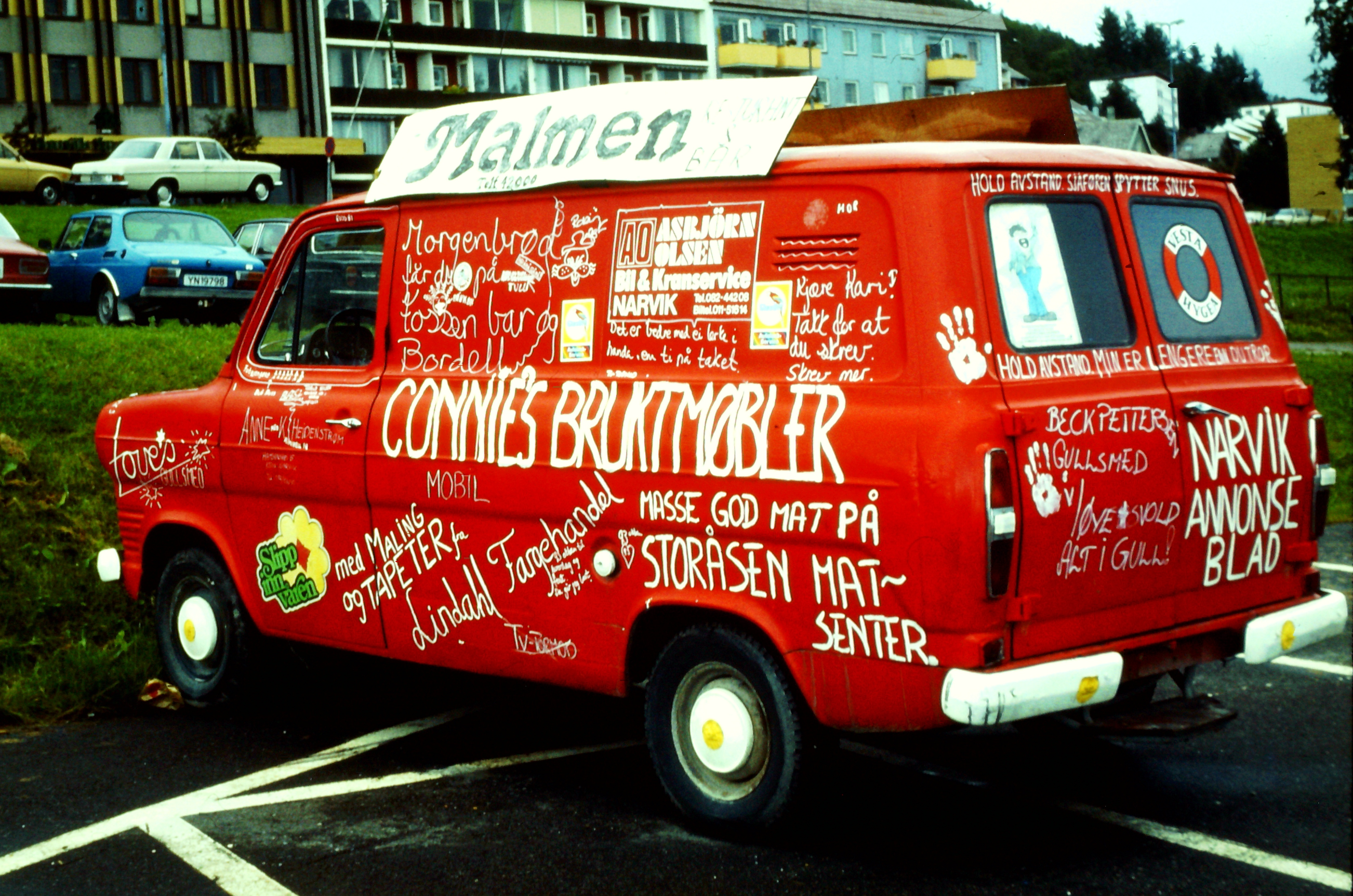 "Russebil", Narvik, Norway. The car was painted for the "russefeiring" (russ celebration) which is a traditional celebration for Norwegian high school students in their final semester